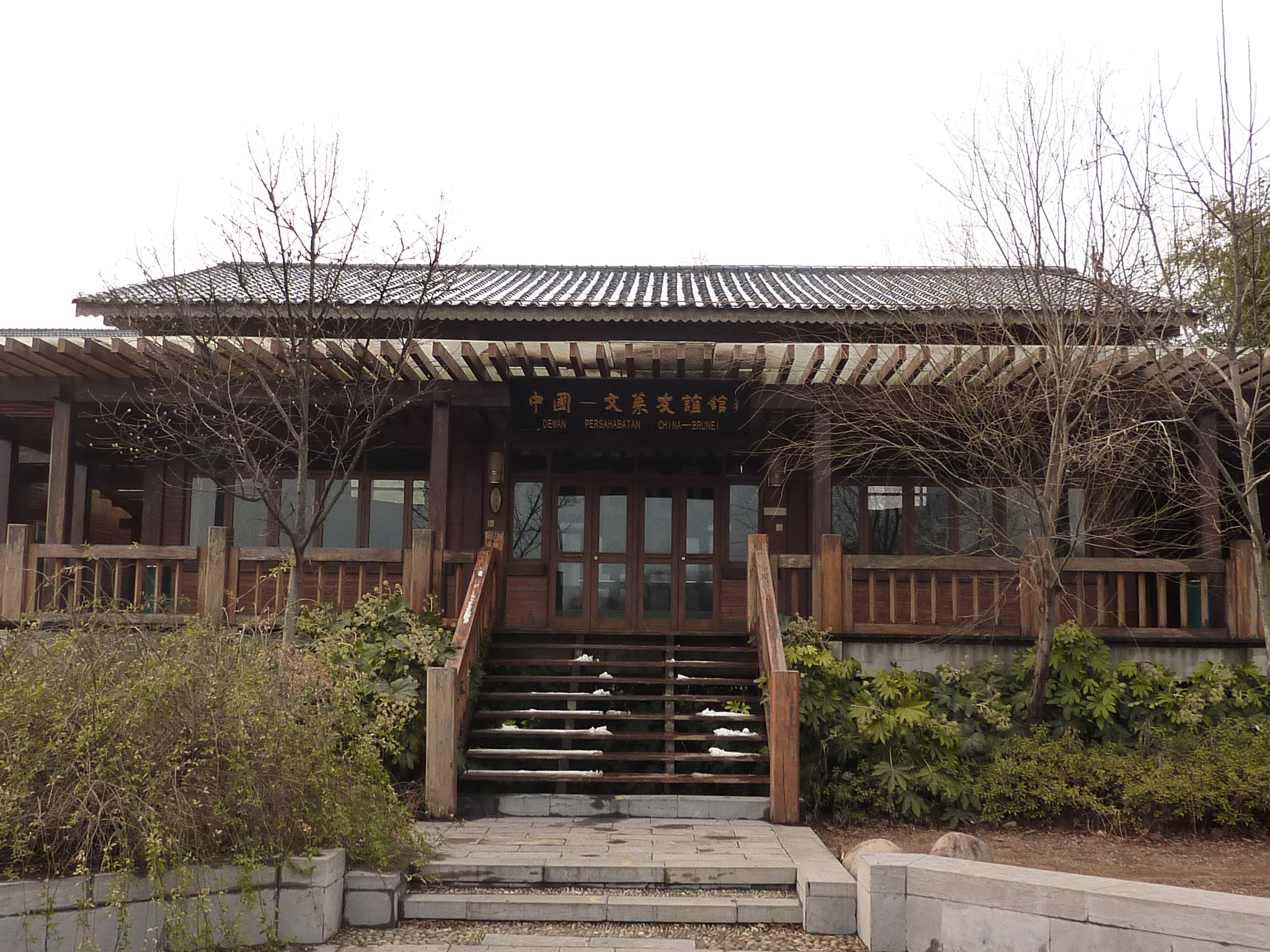 Sino-Bruneian Friendhsip Hall, next to the Tomb of the Sultan of Brunei in Nanjing.